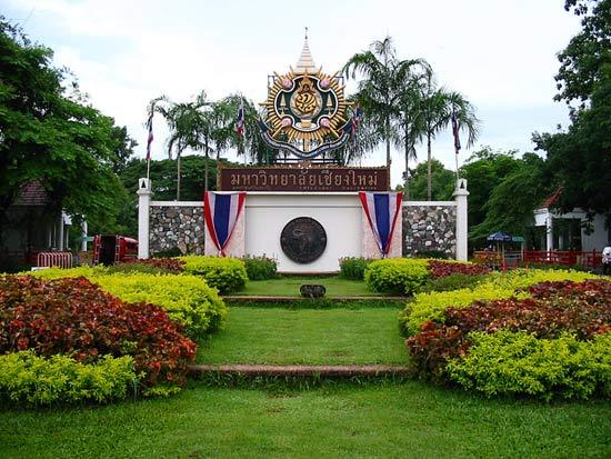 Chiang Mai University Main Entrance